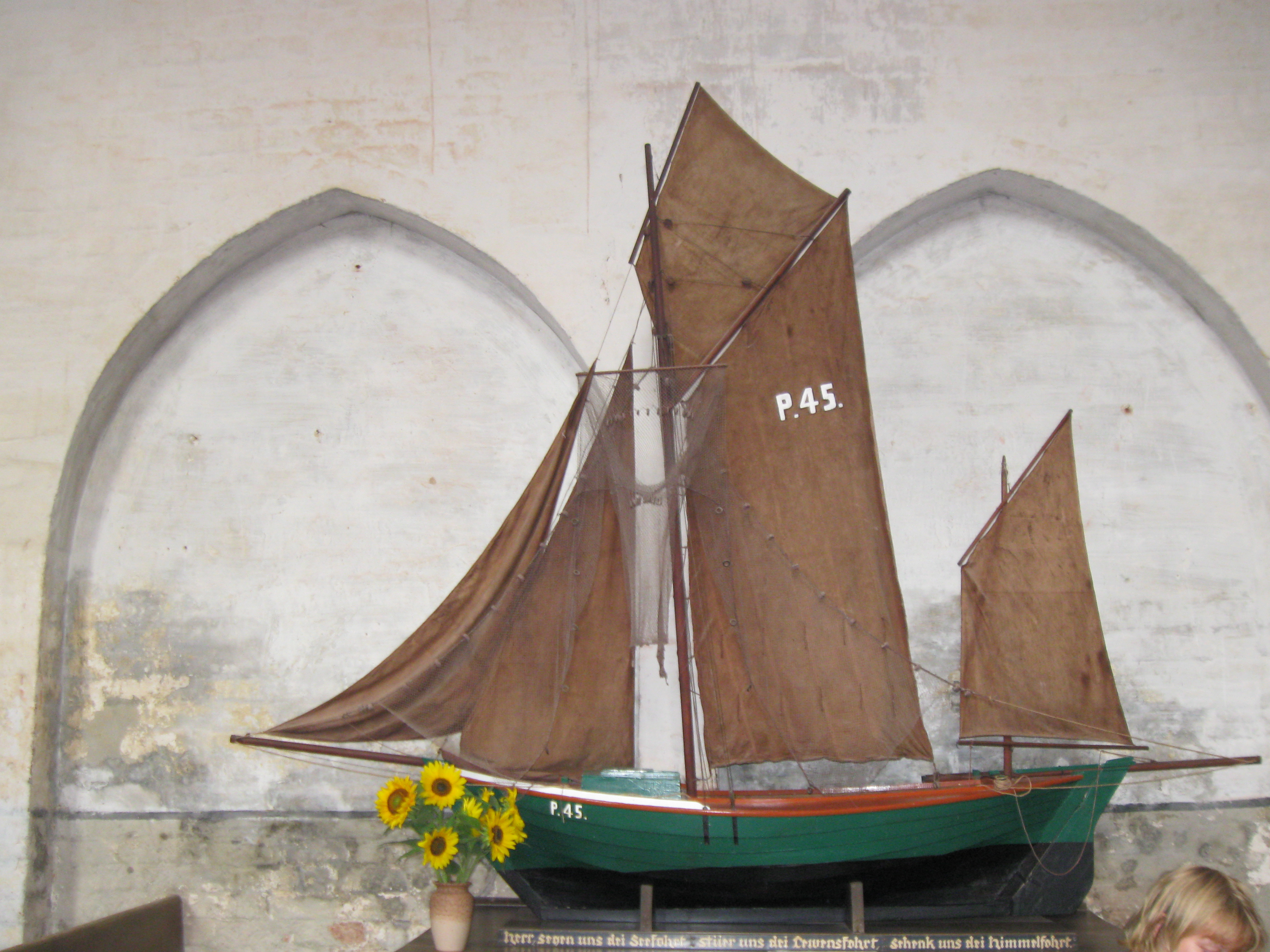 A Votiv Ship in the church of Kirchdorf Poel